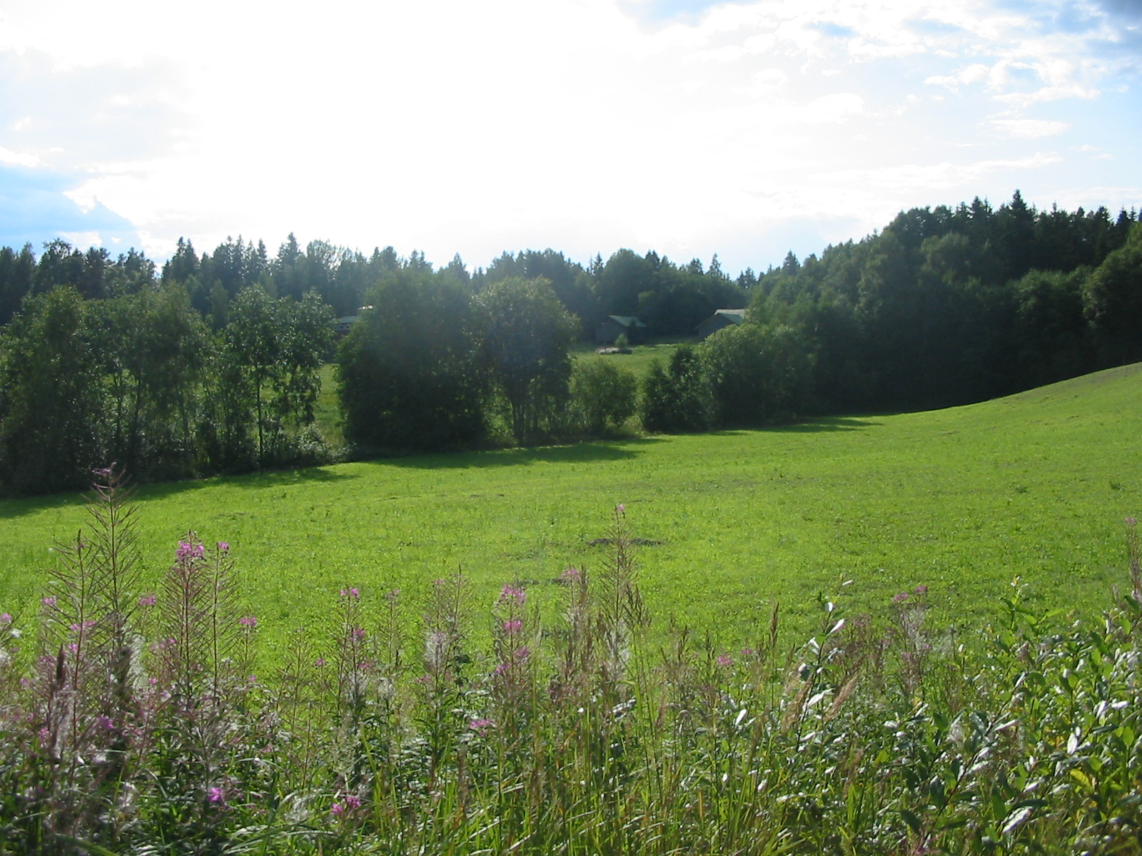 Scenery from the village of Härjänoja, Somerniemi, Somero, Finland in august 2009